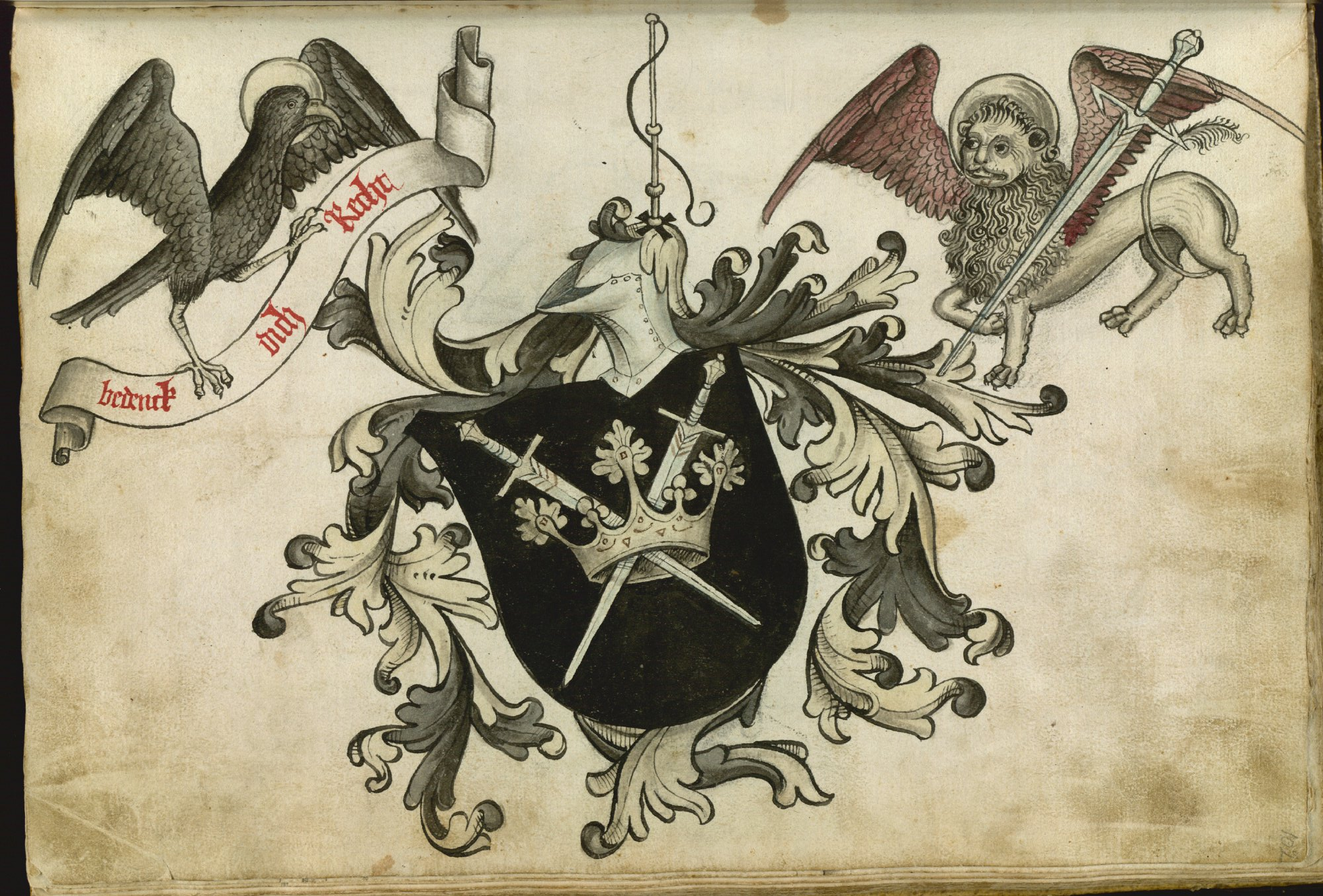 The Ms.Thott.290.2º is a fencing manual composed in 1459 by Hans Talhoffer for his own personal reference; it was scribed by Michel Rotwyler and illustrated by Clauss Pflieger.